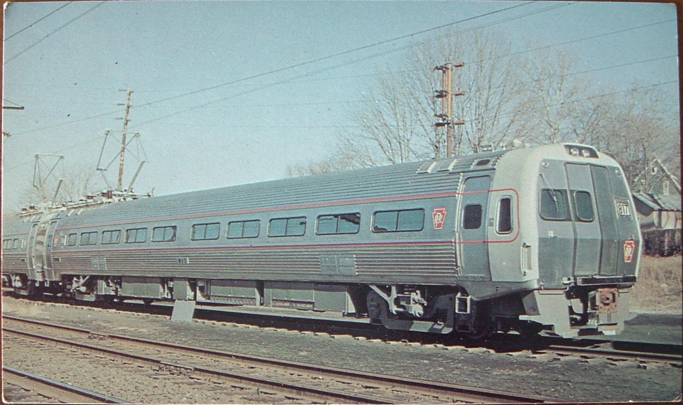 Postcard of a Budd Metroliner in PRR livery at Jenkinstown station in March 1968. The Metroliners were built at Budd's Red Lion plant in Northeast Philadelphia and tested on the Reading before being transferred to PRR lines.